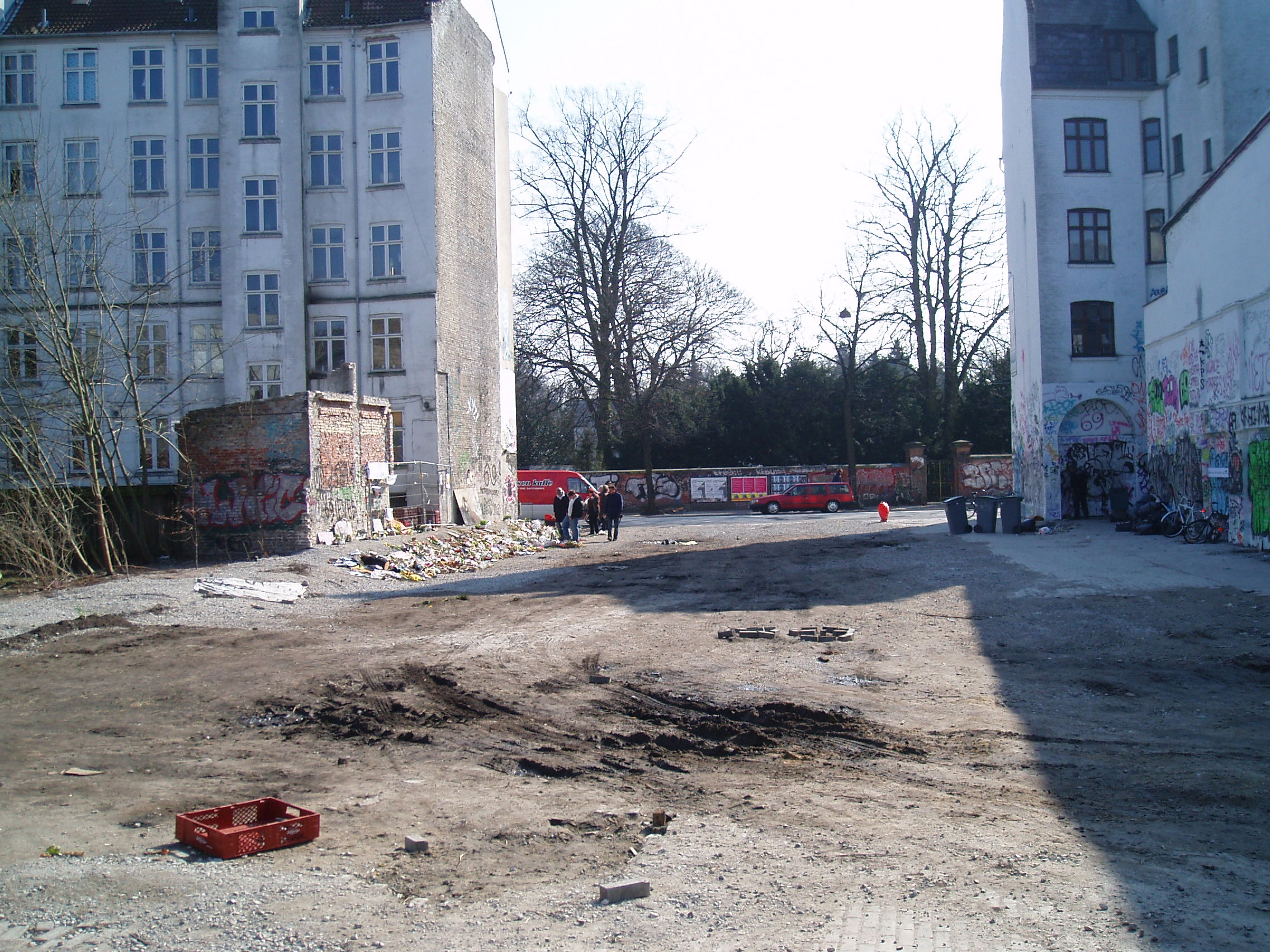 The remains of Ungdomshuset on Jagtvej seen from the bakyard in southwestern direction.